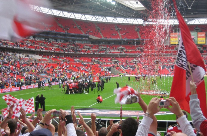 The 2008 League One Play-off winning Doncaster Rovers team celebrate their victory at Wembley Stadium